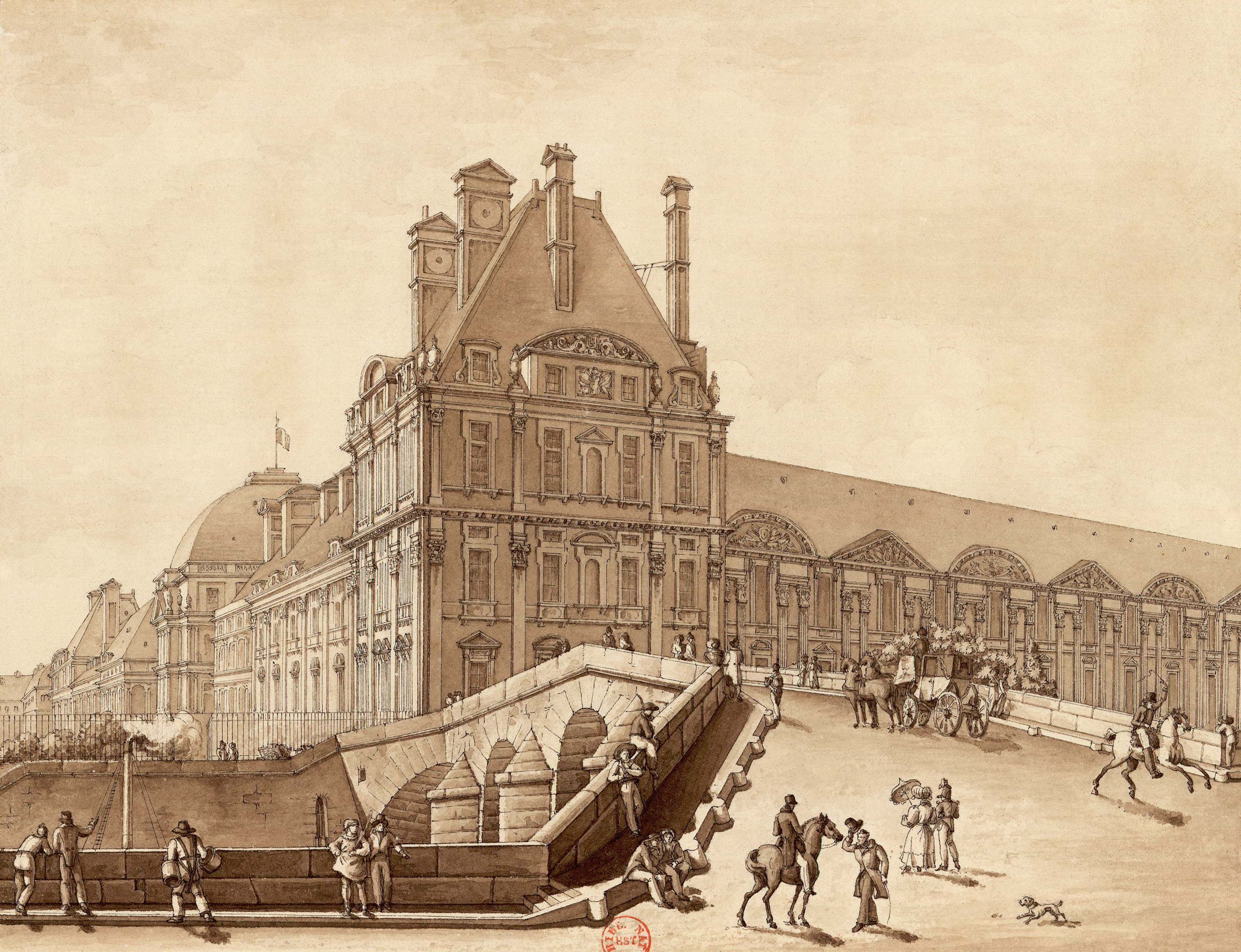 The Pont Royal and the Pavillon de Flore in 1814, Paris, France.